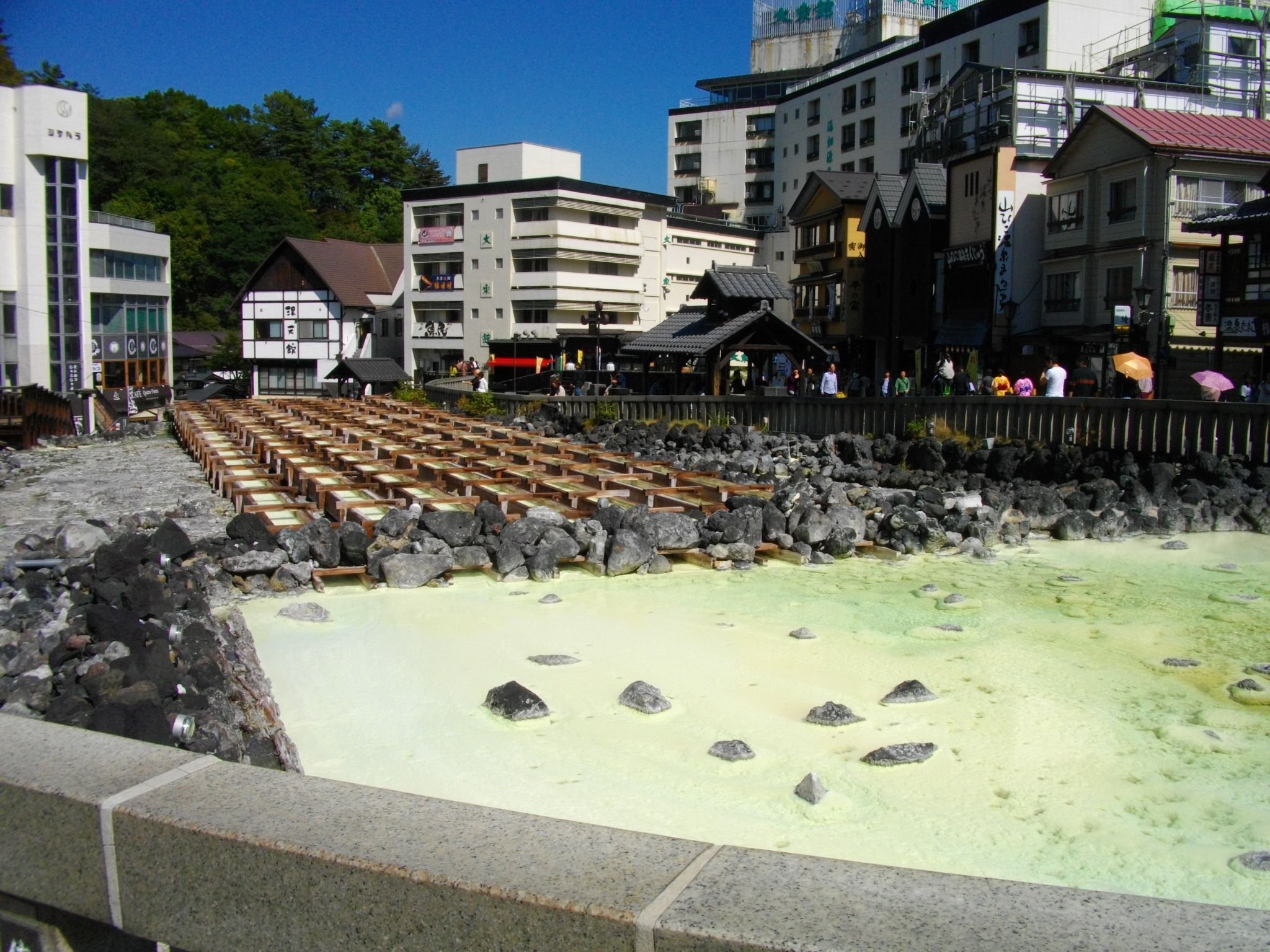 Kusatsu Yubatake